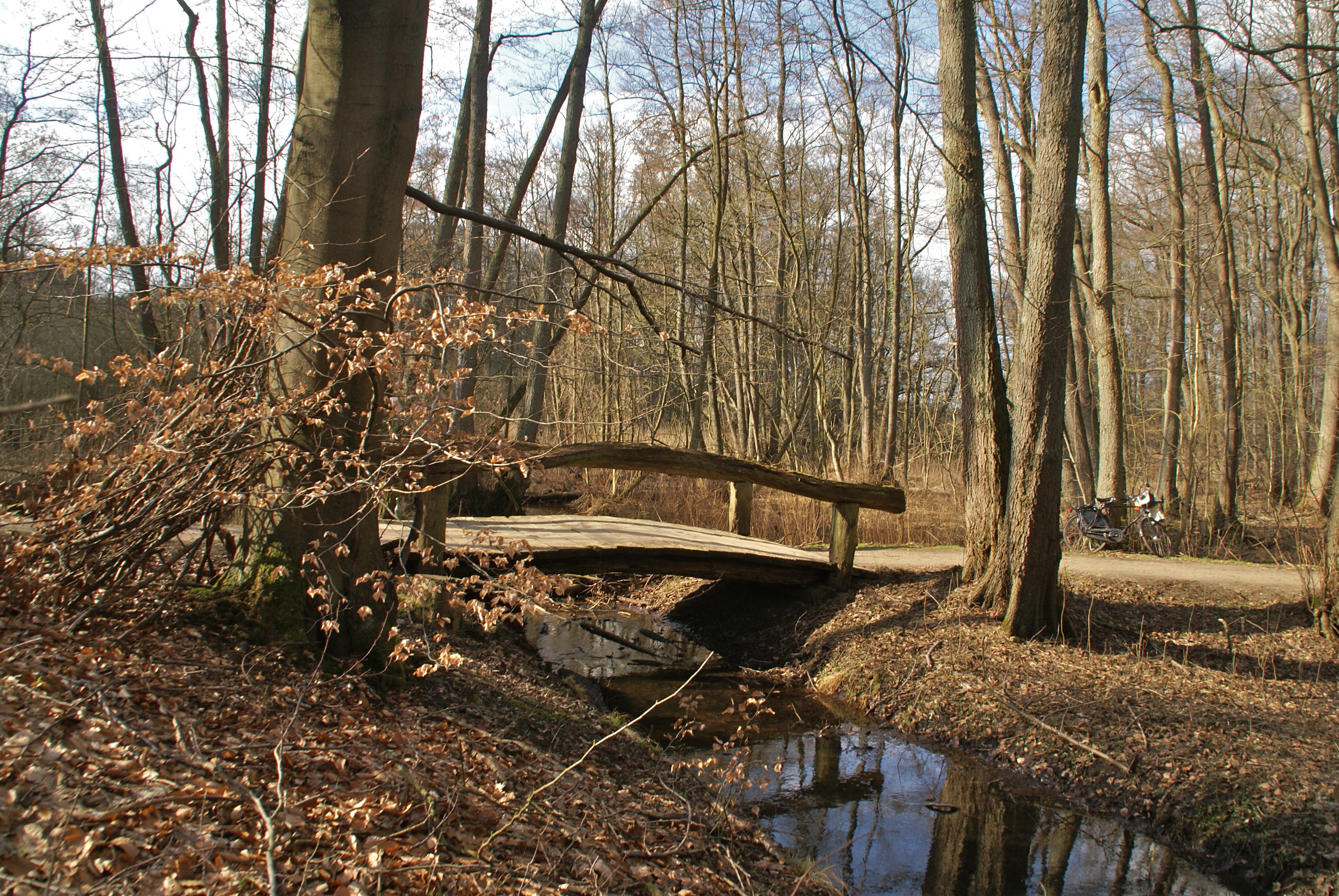 Hamburg (Wohldorf-Ohlstedt), Germany: Bridge over the river Krempenheger Graben